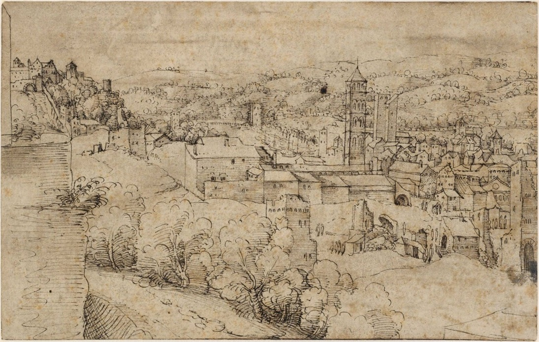 Hilly landscape with a city with a large number of towers, including a Romanesque campanile. Probably drawn when Van Scorel visited Northern Italy between 1518 and 1522.